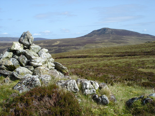 Spot Height 479 A tiny cairn on spot height 479 is a real point of interest in the long miles which separate it from Arenig Fach.